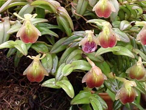 A work released per the GNU Free Documentation License by: Martín Javier Battiti de Tegucigalpa, Honduras